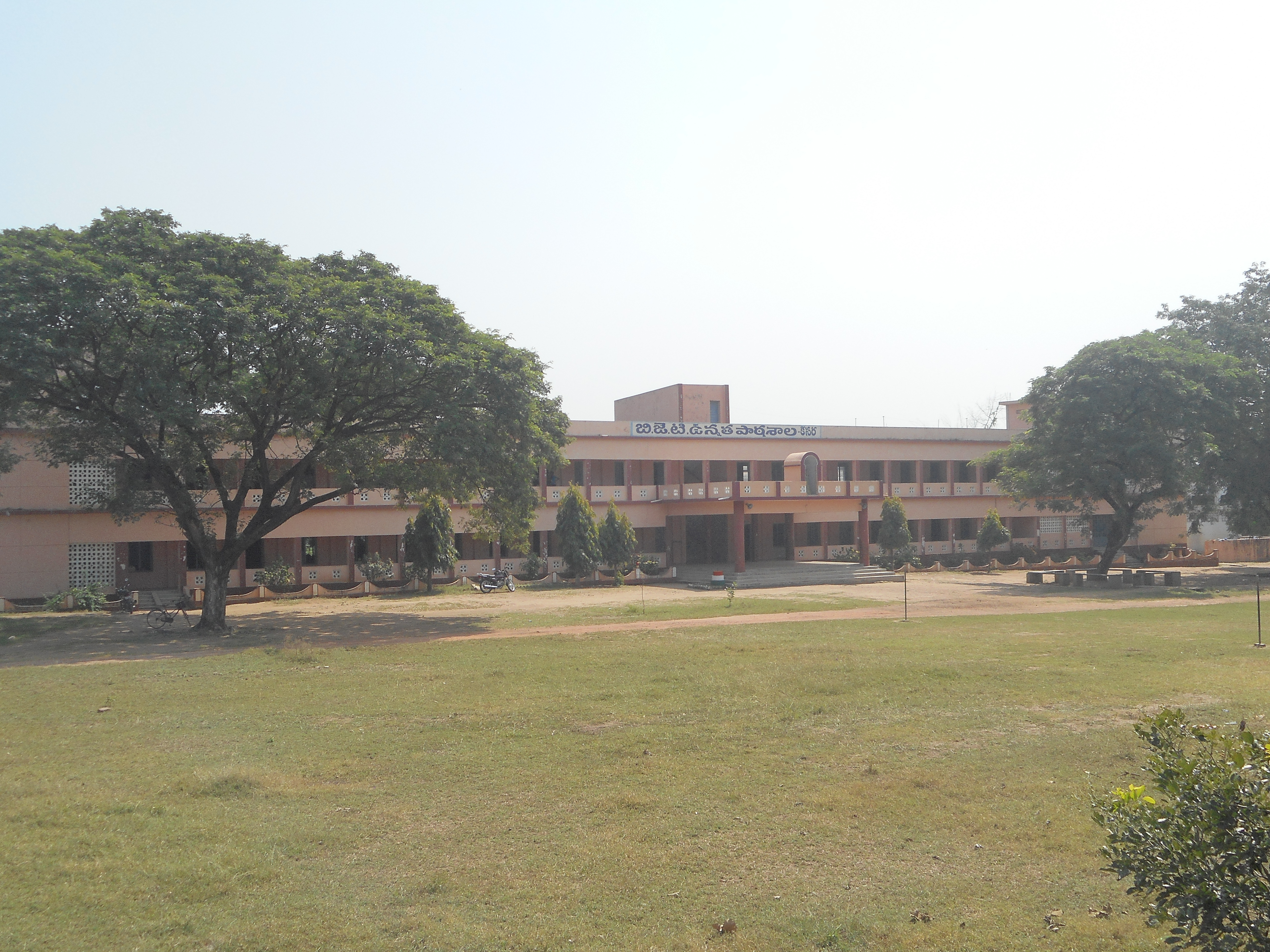 Bishop Joseph Thumma (BJT) High School in Keesara village (kanvhikacherla mandal) of krisna district